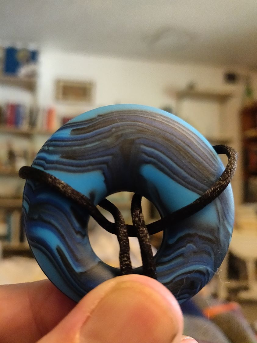 A hard blue rubber stim ring or chewable (suitable for both child and adult autistics) with its lanyard tied in a lark's head. This is a Canadian product from